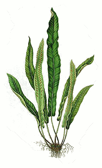 Leaf of a Fern (Asplenium scolopendrium)